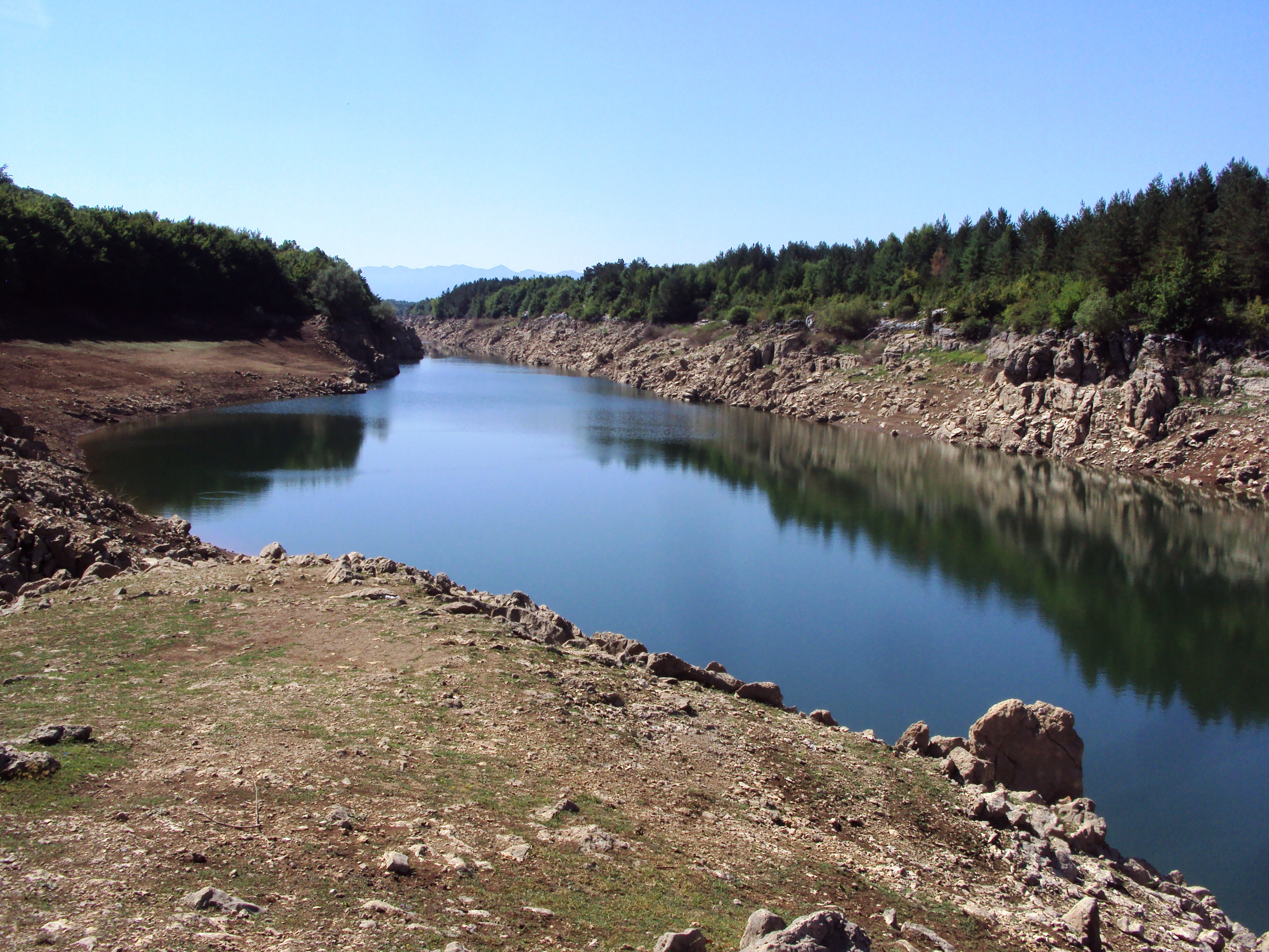 River Lika in Croatia